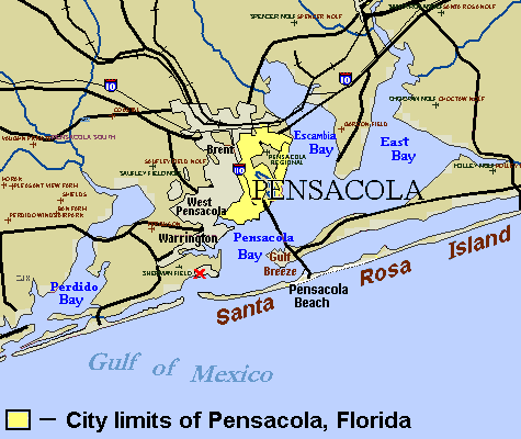 City map of Pensacola, with city limits marked by legend (see References maps). The site of the first settlement near Pensacola (Ochuse) is marked by the red "X" near the site of Fort Barrancas. Small crosses designate airfields in the region. Areas have been labeled for the communities of Brent, West Pensacola, Warrington, Gulf Breeze, and Pensacola Beach. (Several other towns have not been labeled.)